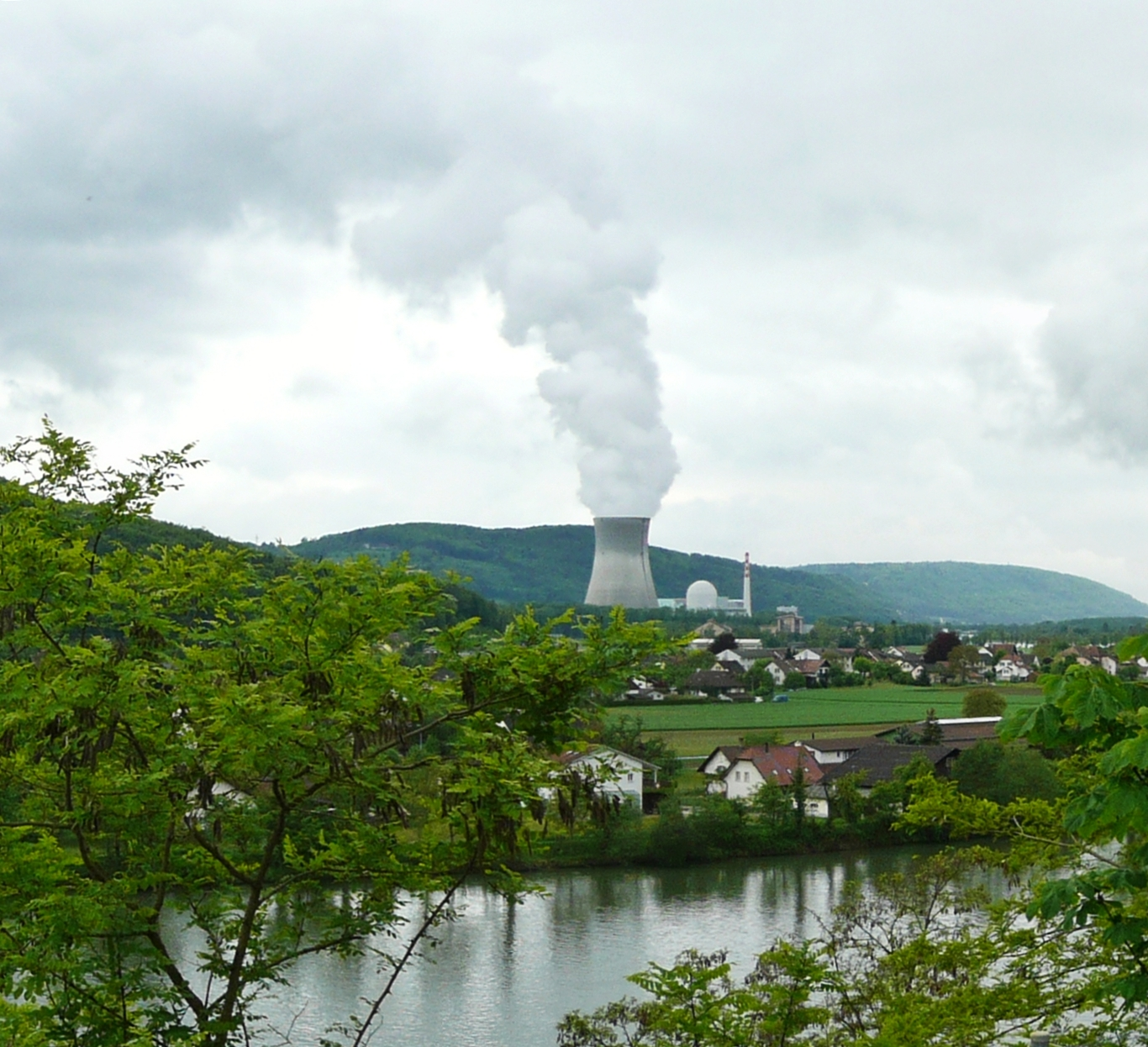 This image shows the Leibstadt Nuclear Power Plant in Switzerland.